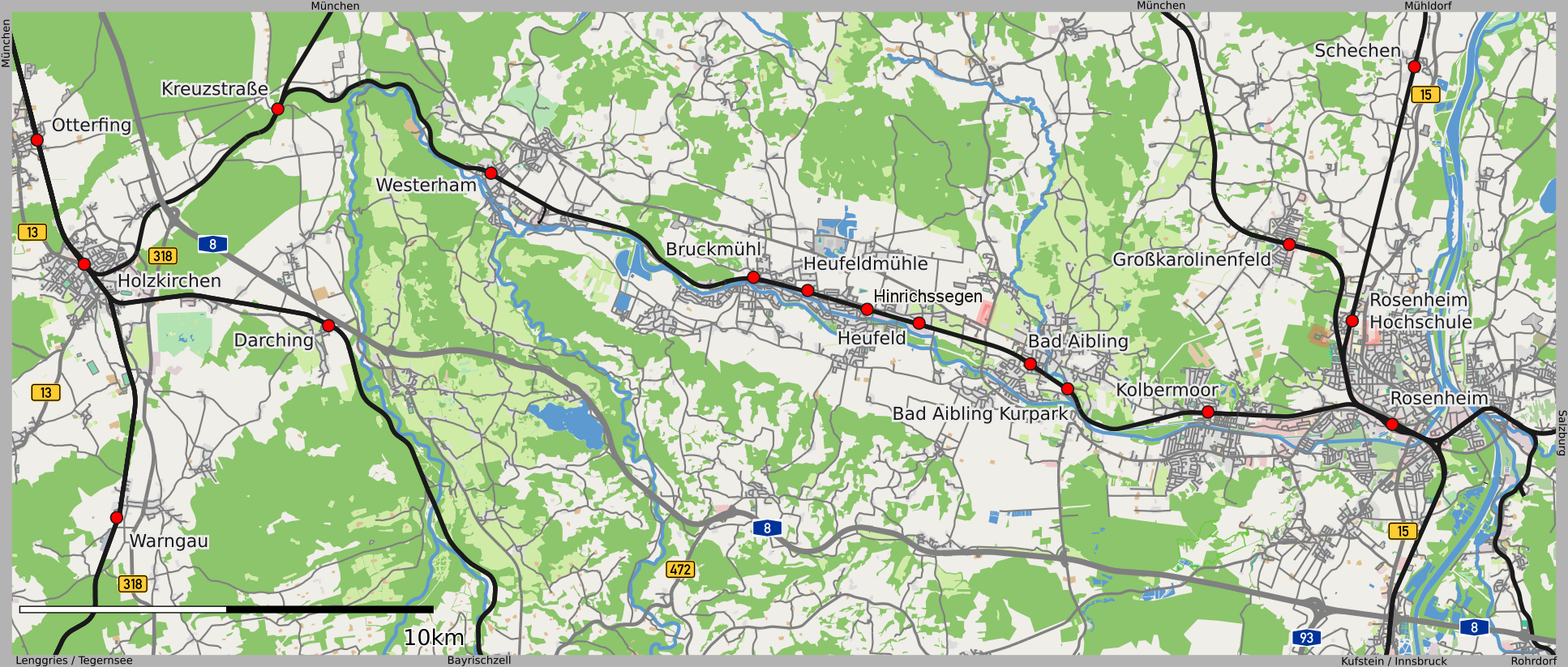 This map the Mangfall Valley Railway was created from OpenStreetMap project data, collected by the community.This map may be incomplete, and may contain errors. Don't rely solely on it for navigation.